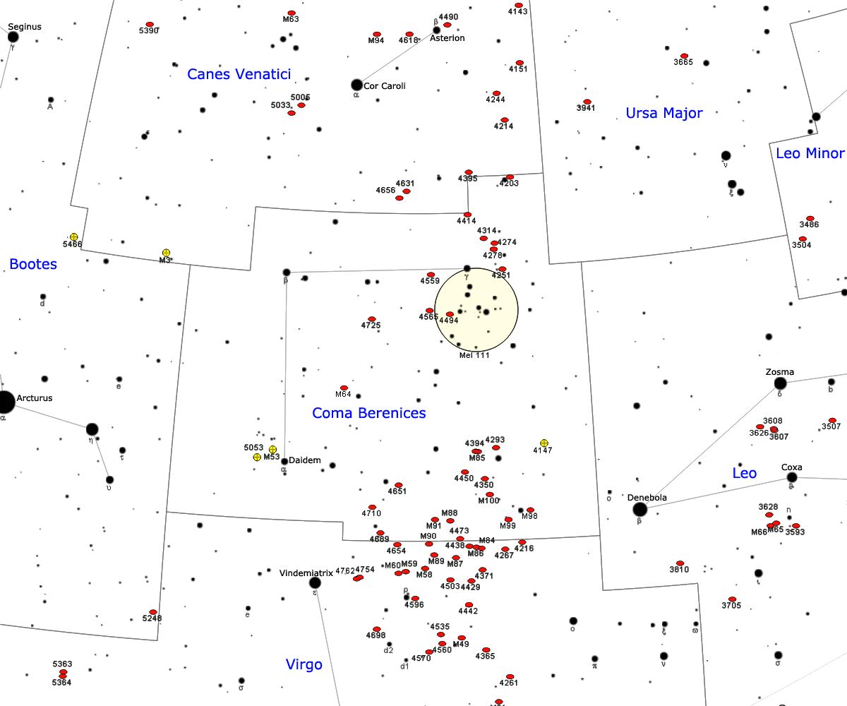 Map of Coma Berenices